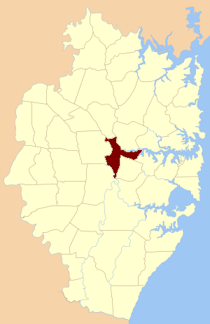 original location of the parish within Cumberland County, New South Wales (Sydney area)